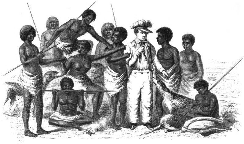 Illustration from The Last of the Tasmanians" - Mr Robinson on his conciliation mission